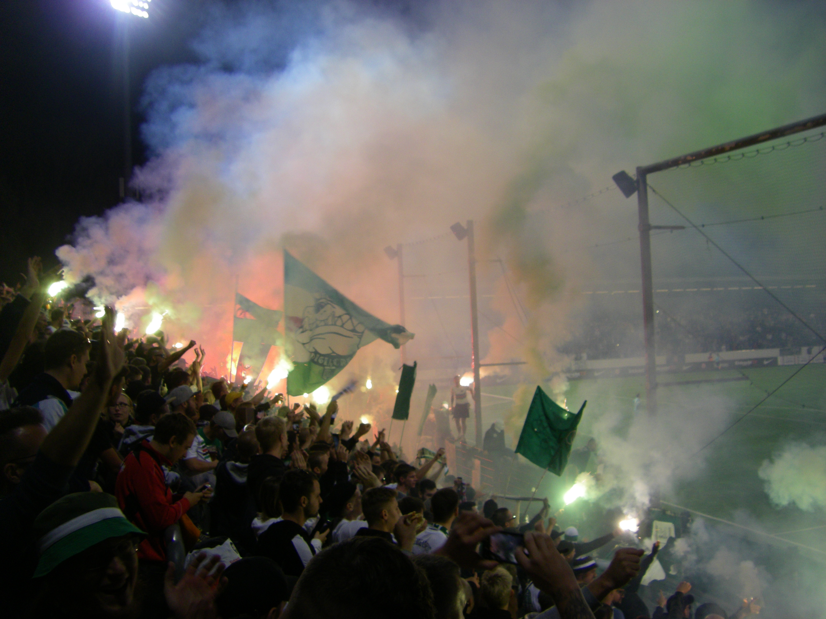 The match on September 6, 2019 was a benefit match of Eintracht Frankfurt to help finance a flood-lighting in Alfred-Kunze-Sportpark, stadium of BSG Chemie Leipzig.